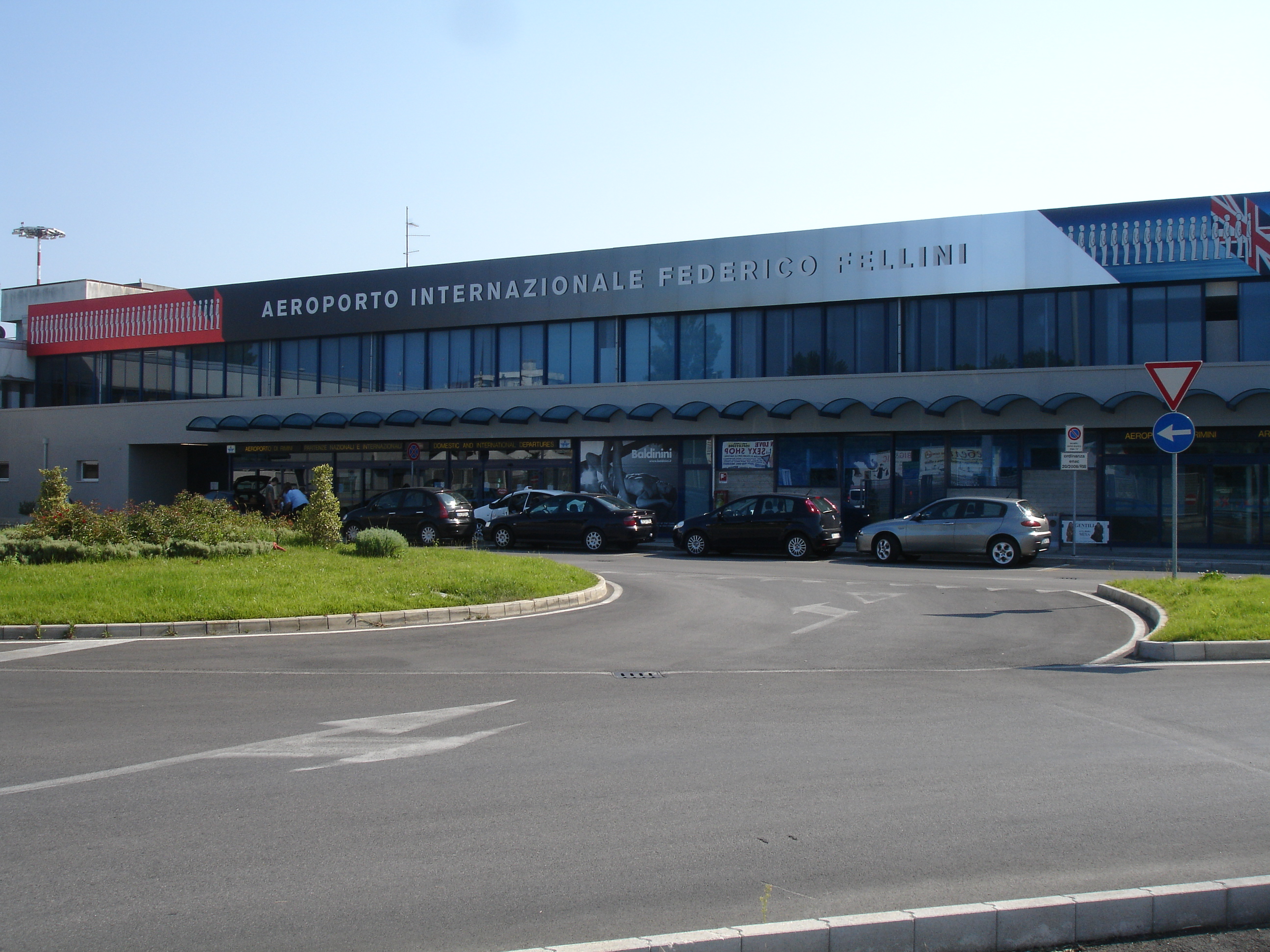 The entrance to the Federico Fellini Airport in Rimini